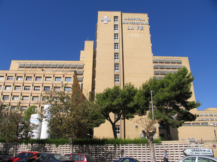 Fachada del hospital de Campanar